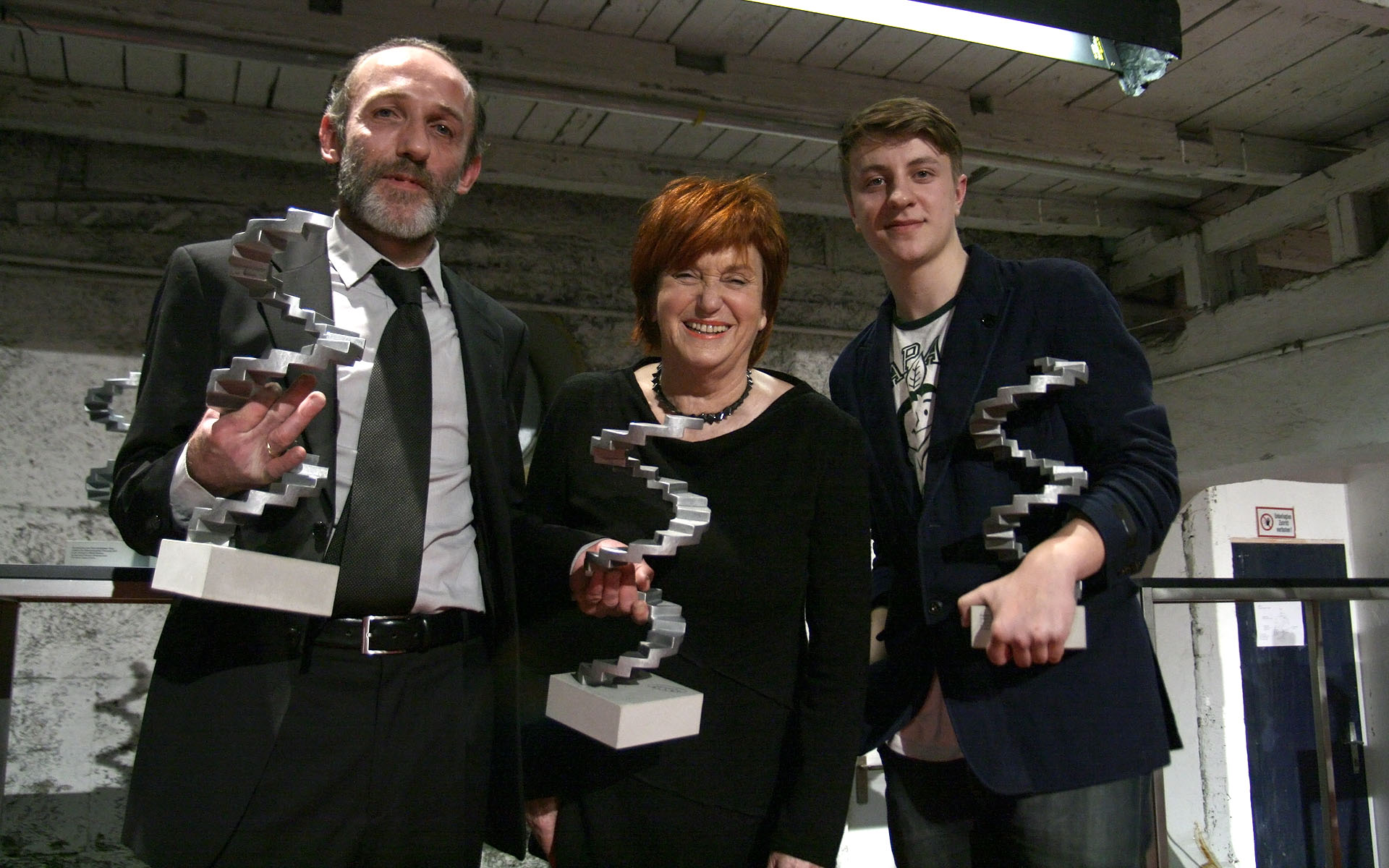 Karl Markovics, Valie Export and Thomas Schubert; Austrian Film Awards 2012 (Vienna).